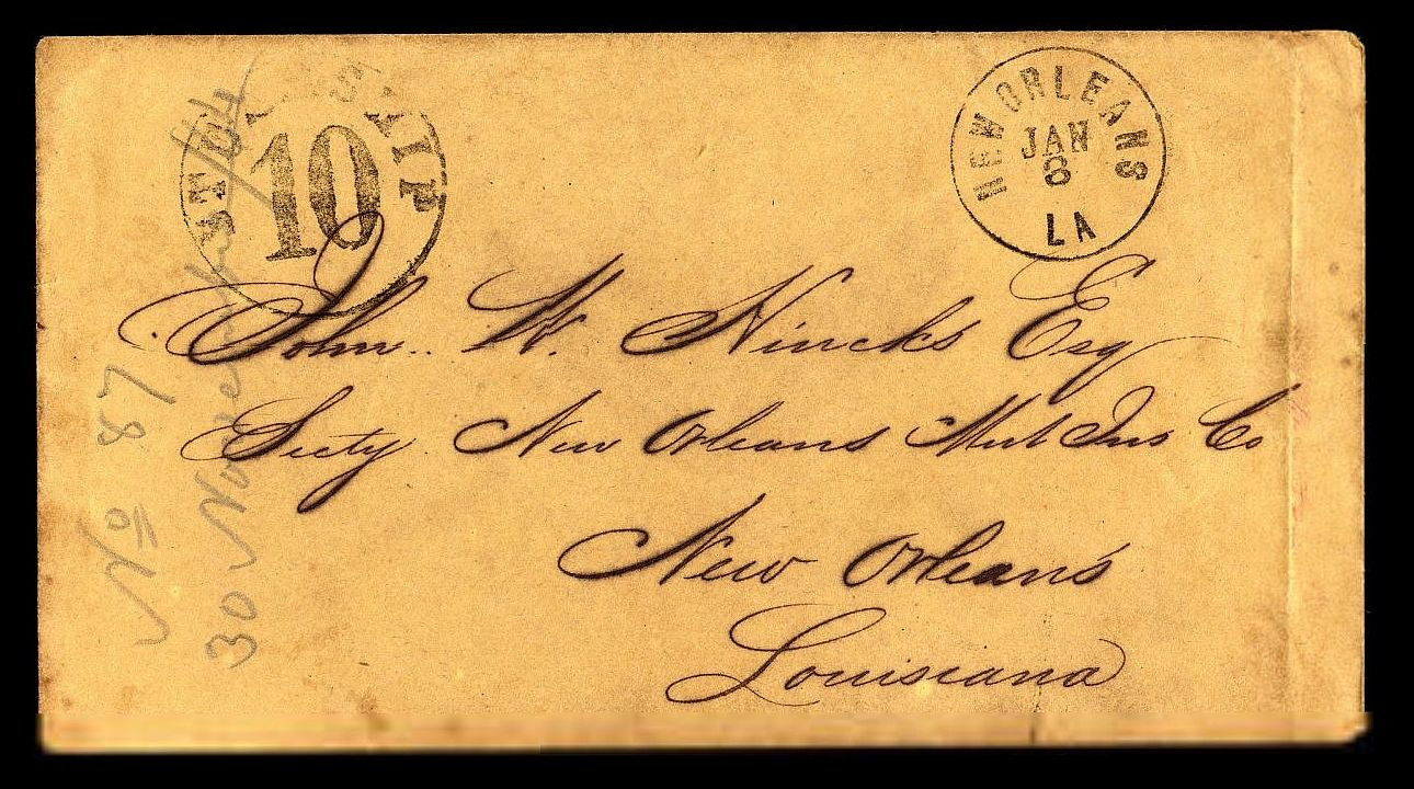 Confederate blockade-run cover This cover is from one of the Hincks brothers to his father. The letter was probably placed aboard a blockade runner and handed over in Nassau to a ship bound for New Orleans. Upon arrival in New Orleans on January 8, 1865, the letter was treated as an unpaid incoming ship letter and marked with ten cents due.